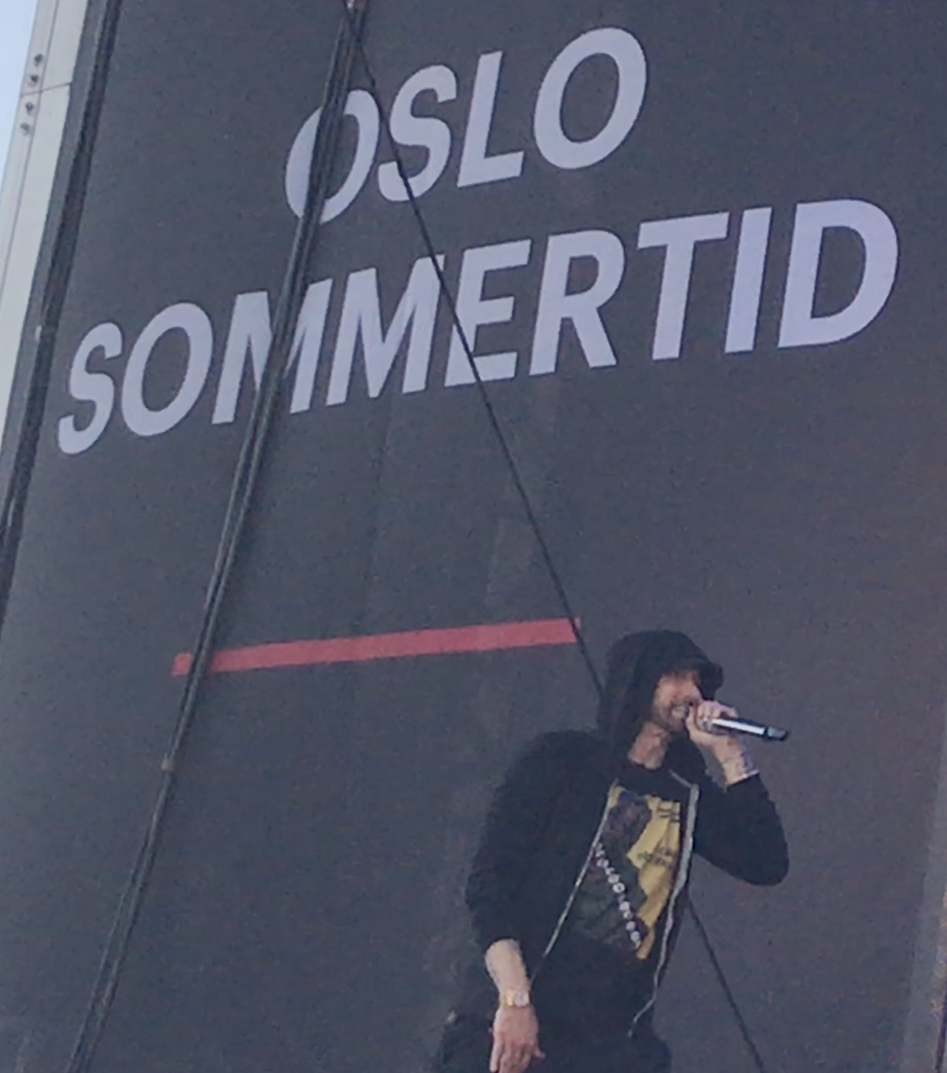 Eminem at Oslo Sommertid 2018